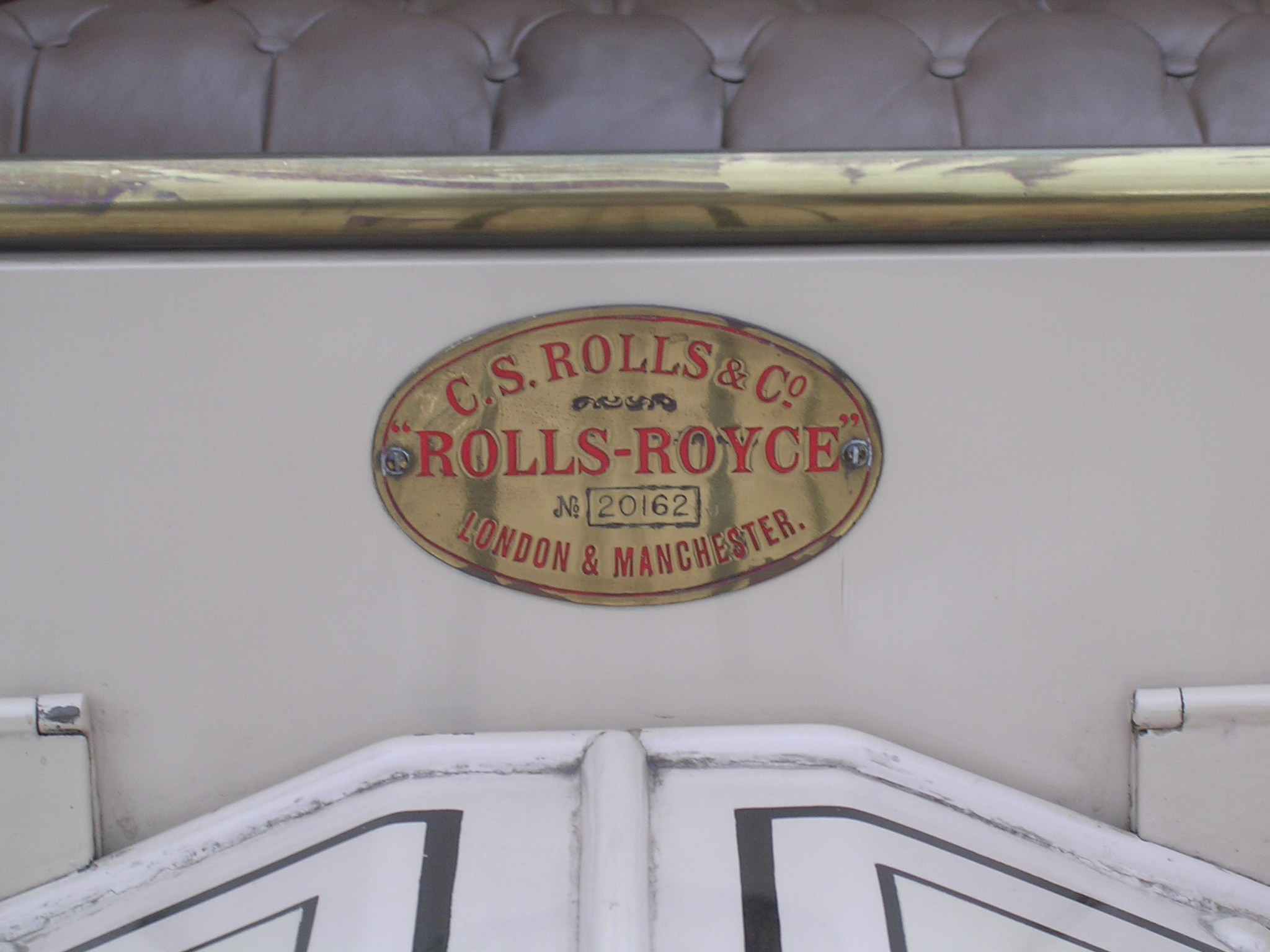 A 1905 model Rolls Royce, as featured in the Museum of Science and Industry in Manchester. This car, registration AX148, was built in the original Manchester factory, and is the oldest such vehicle on public display.